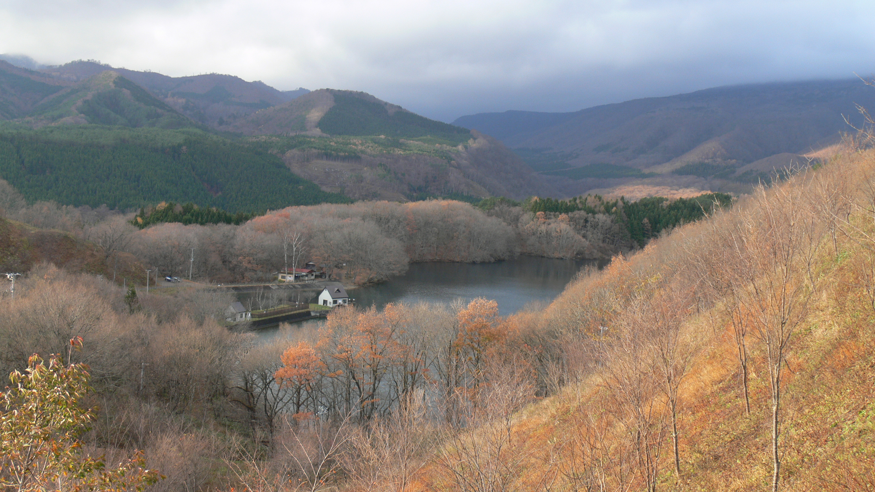 Lake Choro (Choro-ko) in Shichigashuku Town, Miyagi Prefecture, Japan